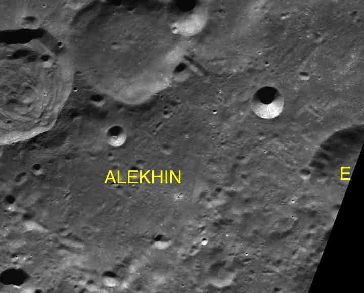 Part of the chart LAC-142 used for the presentation